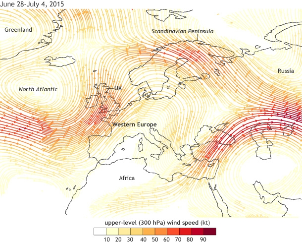 Europe: Average upper-level (300hPa) winds from June 28 - July 4, 2015 amidst an ongoing heatwave across Europe. The wavy jet stream formed into an omega block, so named after its resemblance to the greek letter omega. Map based on NCEP/NCAR Reanalysis data (Text after Tom Di Liberto: Summer heat wave arrives in Europe. NOAA » Event Tracker, July 14, 2015 [1]).